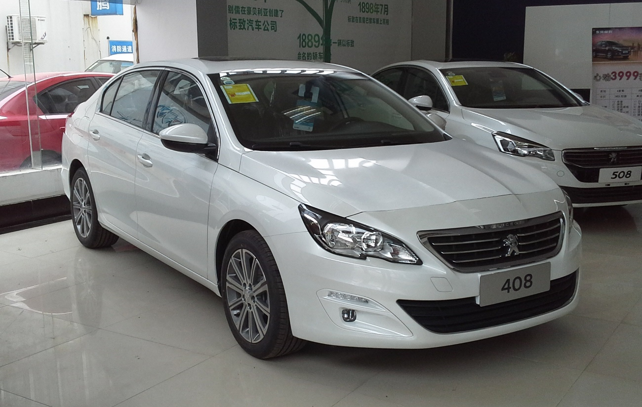 Peugeot 408 II photographed in Wuhan, Hubei province, China.